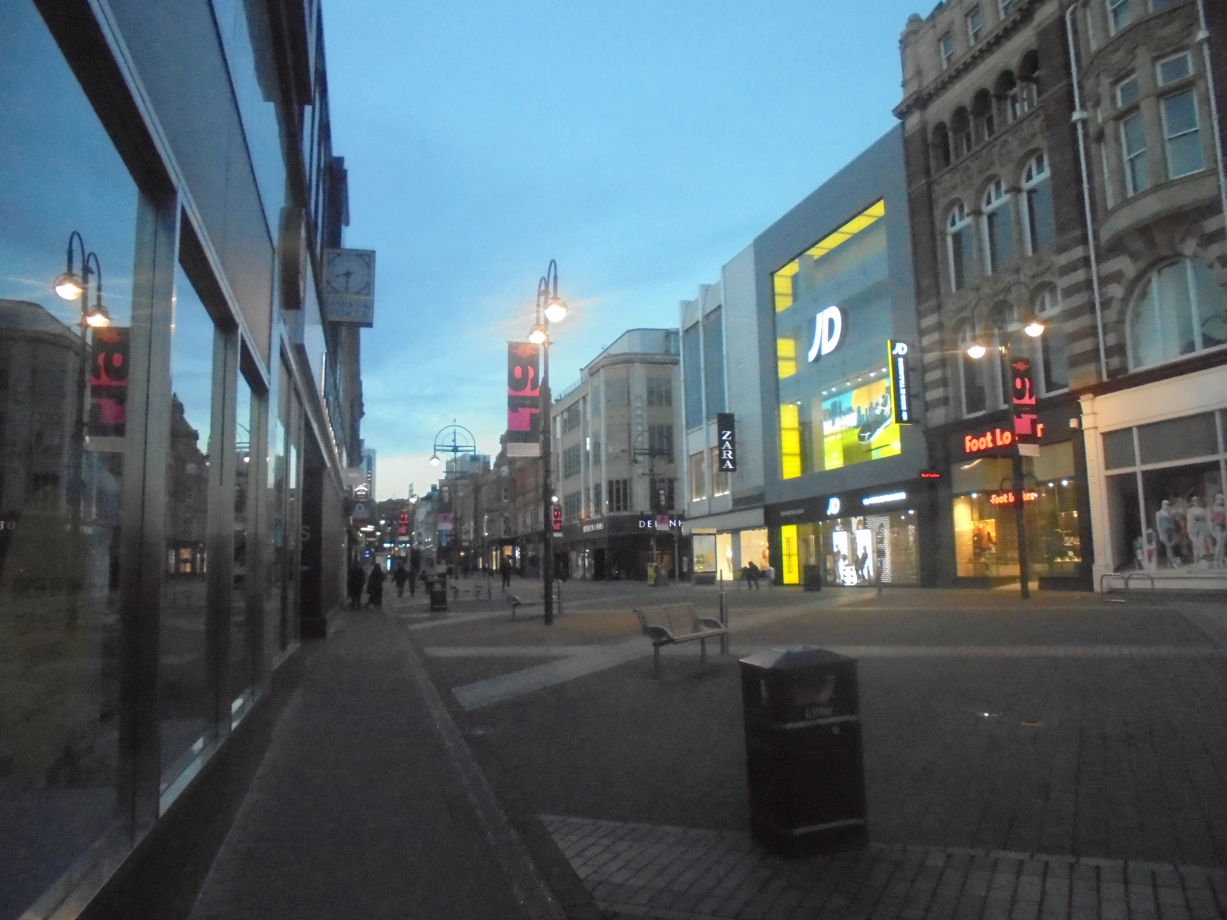 Briggate, Leeds, West Yorkshire. Taken on the evening of Thursday the 25th of April 2019.